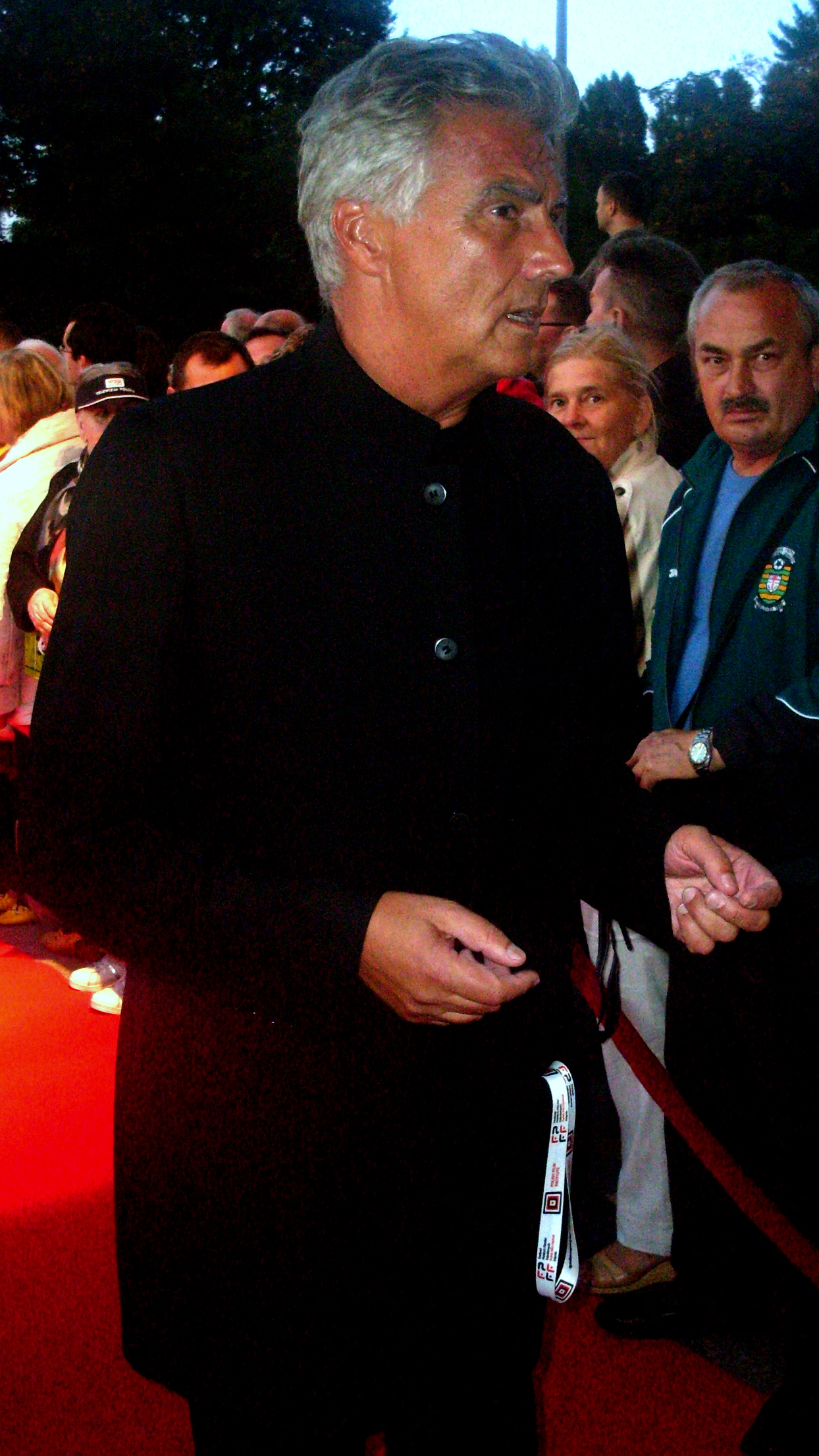 Polish film director Krzysztof Krauze at opening of the XXXIV Polish Film Festival in Gdynia 2009.